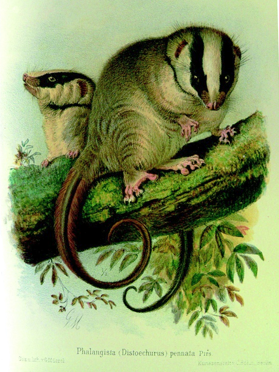 Distoechurus pennatus